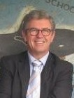 David Gillespie (middle) with students at Taree Public School in 2017